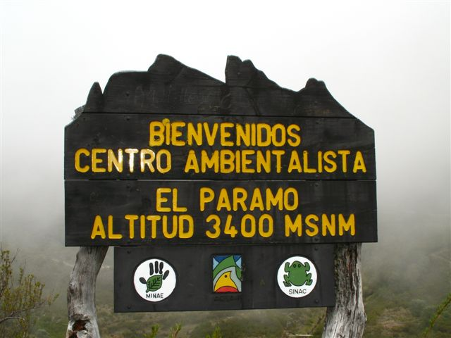 Costa Rica Chirripo paramo